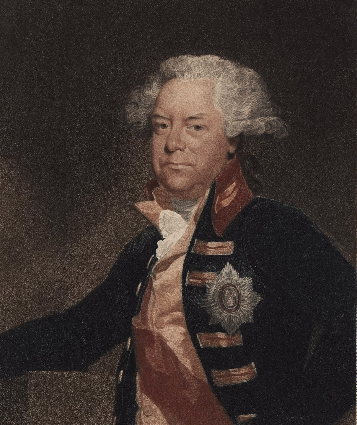 The Right Honorable Sr George Yonge Bt / Secretary at War, Knight of the Bath